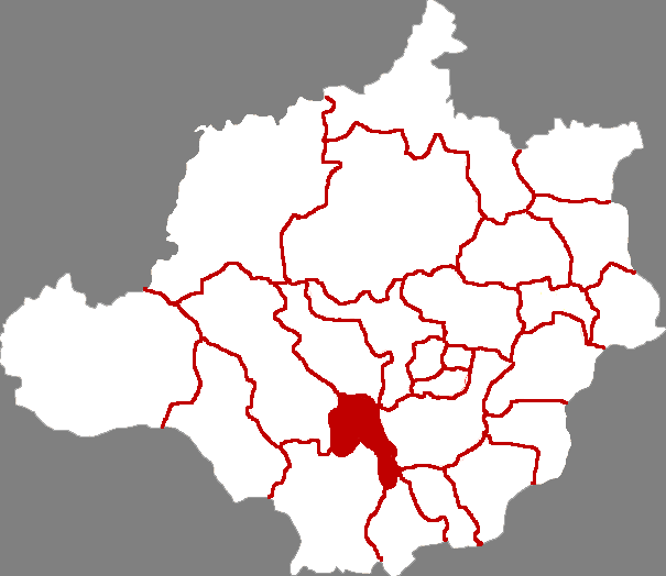 Location of Wangdu county in Baoding City, China